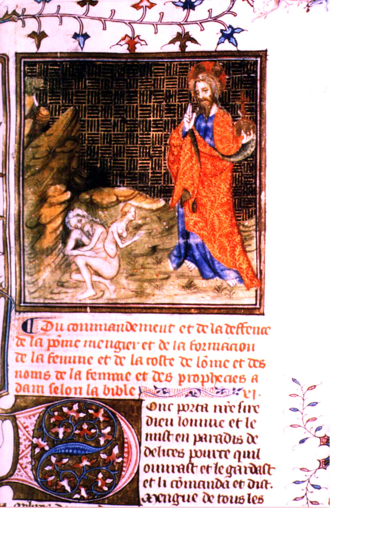 Genesis homini